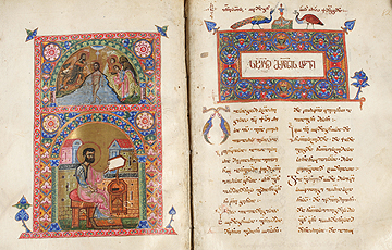 The Vani Gospels from Georgia